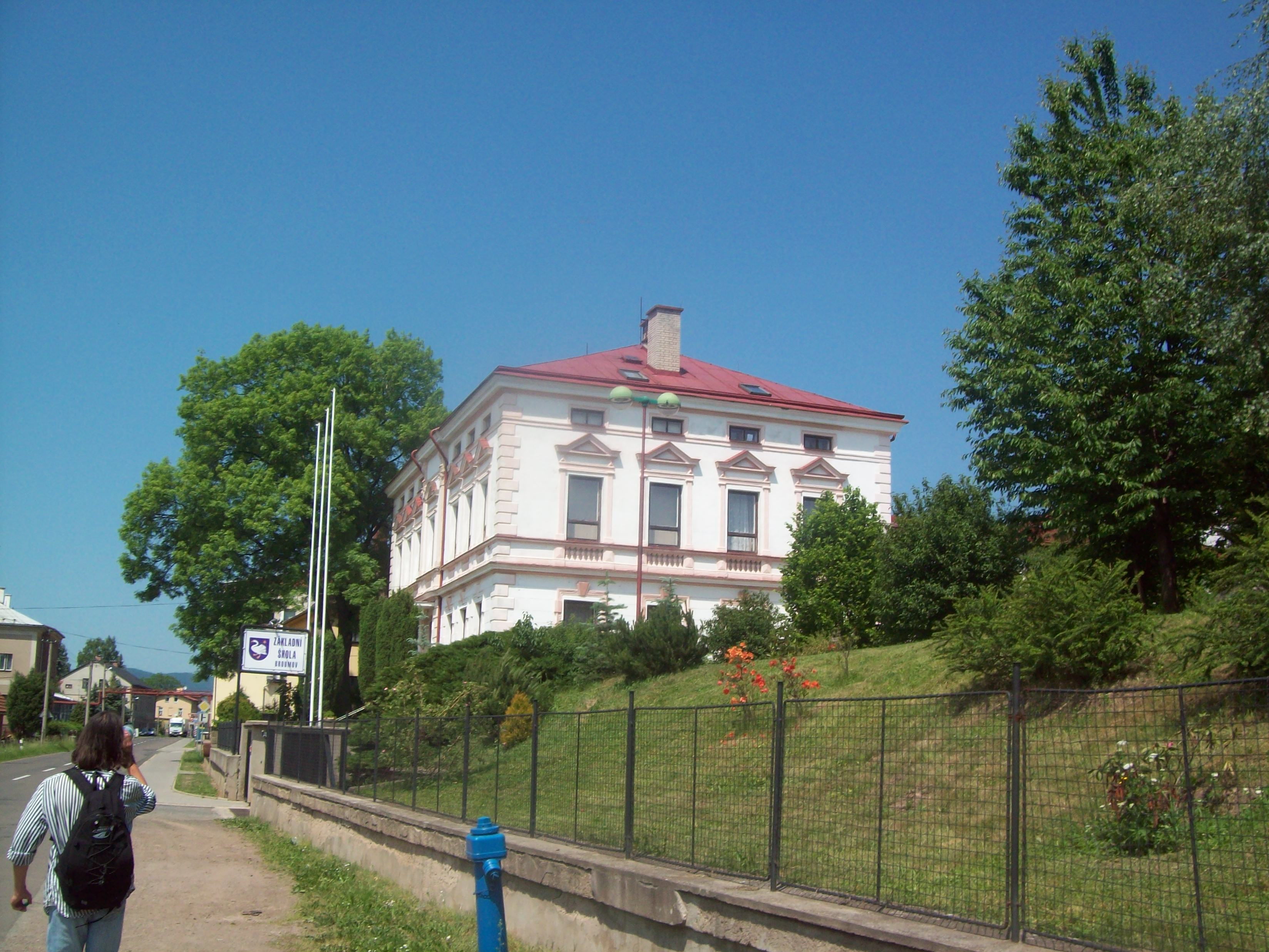 Elementary School in Broumov, Czech Republic.